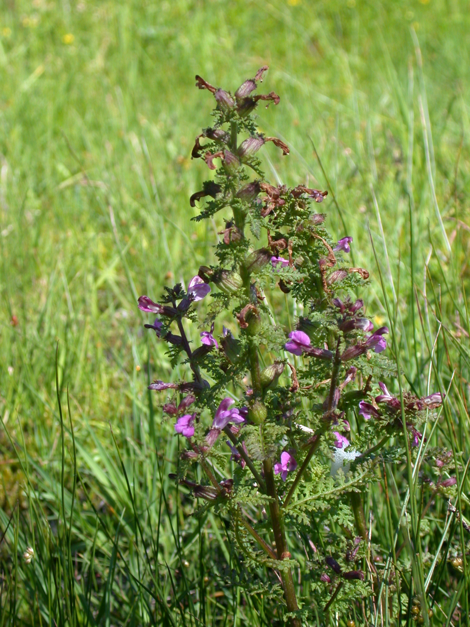 Pedicularis palustris (Orobanchaceae); Rossweid, Sörenberg, Canton of Lucerne, Switzerland